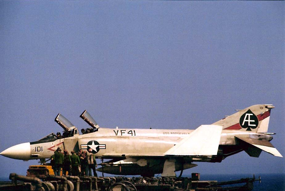 A U.S. Navy McDonnell Douglas F-4J Phantom II of fighter squadron VF-41 Black Aces on the flight deck of the the aircraft carrier USS Franklin D. Roosevelt (CVA-42) in 1970-1972. VF-41 was assigned to Attack Carrier Air Wing 6 (CVW-6) aboard the FDR flying the F-4J from 1970 to 1972.